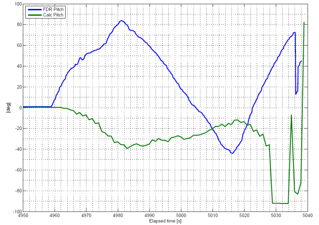 FDR Pitch Angle (blue) and preliminary calculated Pitch Angle (green).